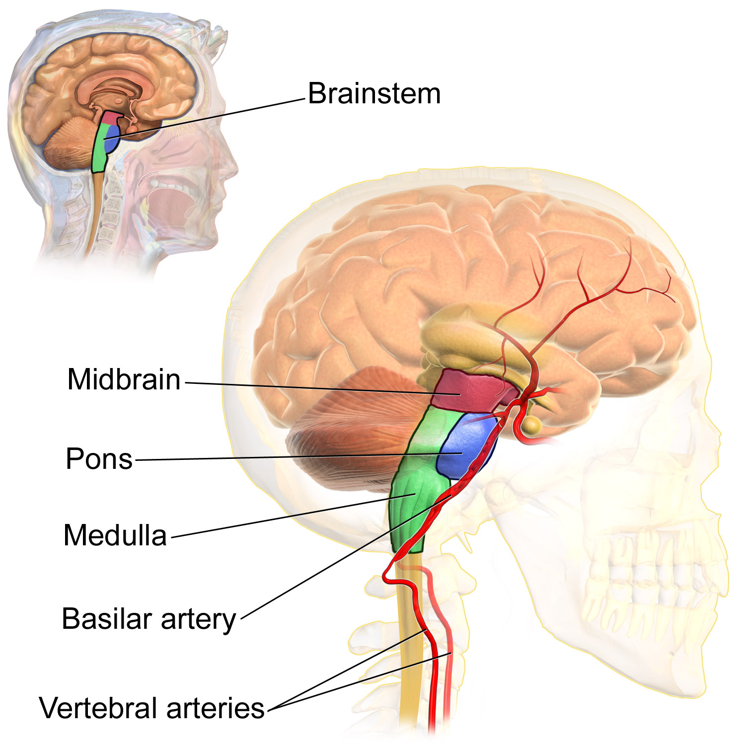 The Brainstem. See a full animation of this medical topic.